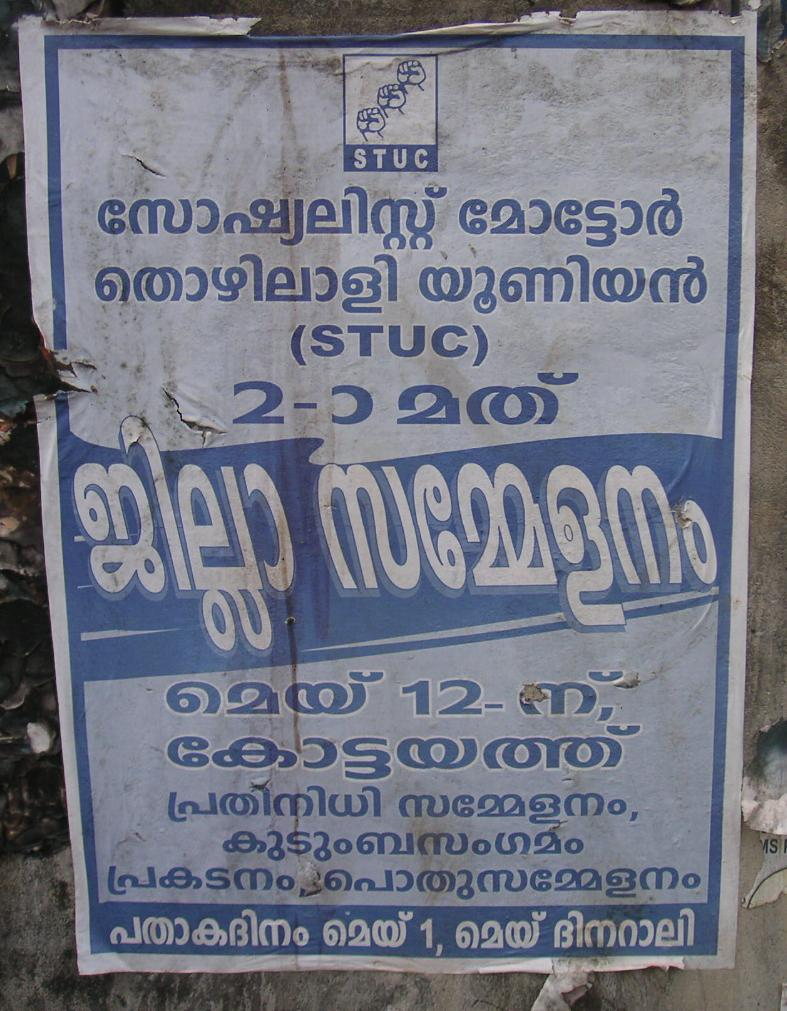 Photo: Soman